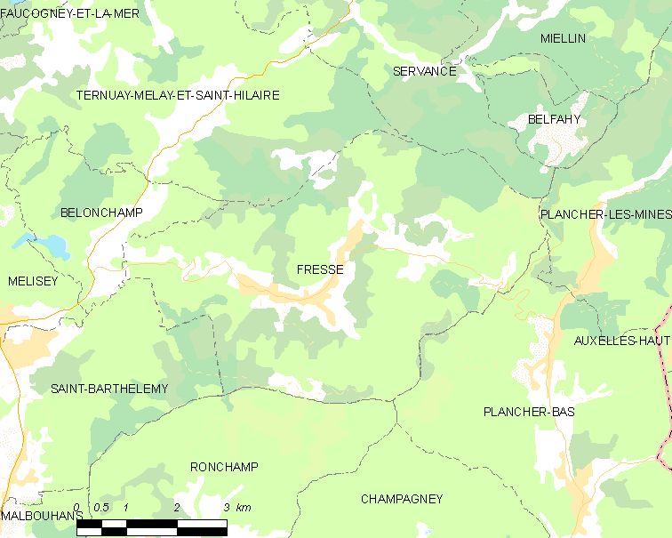 Map of French municipality